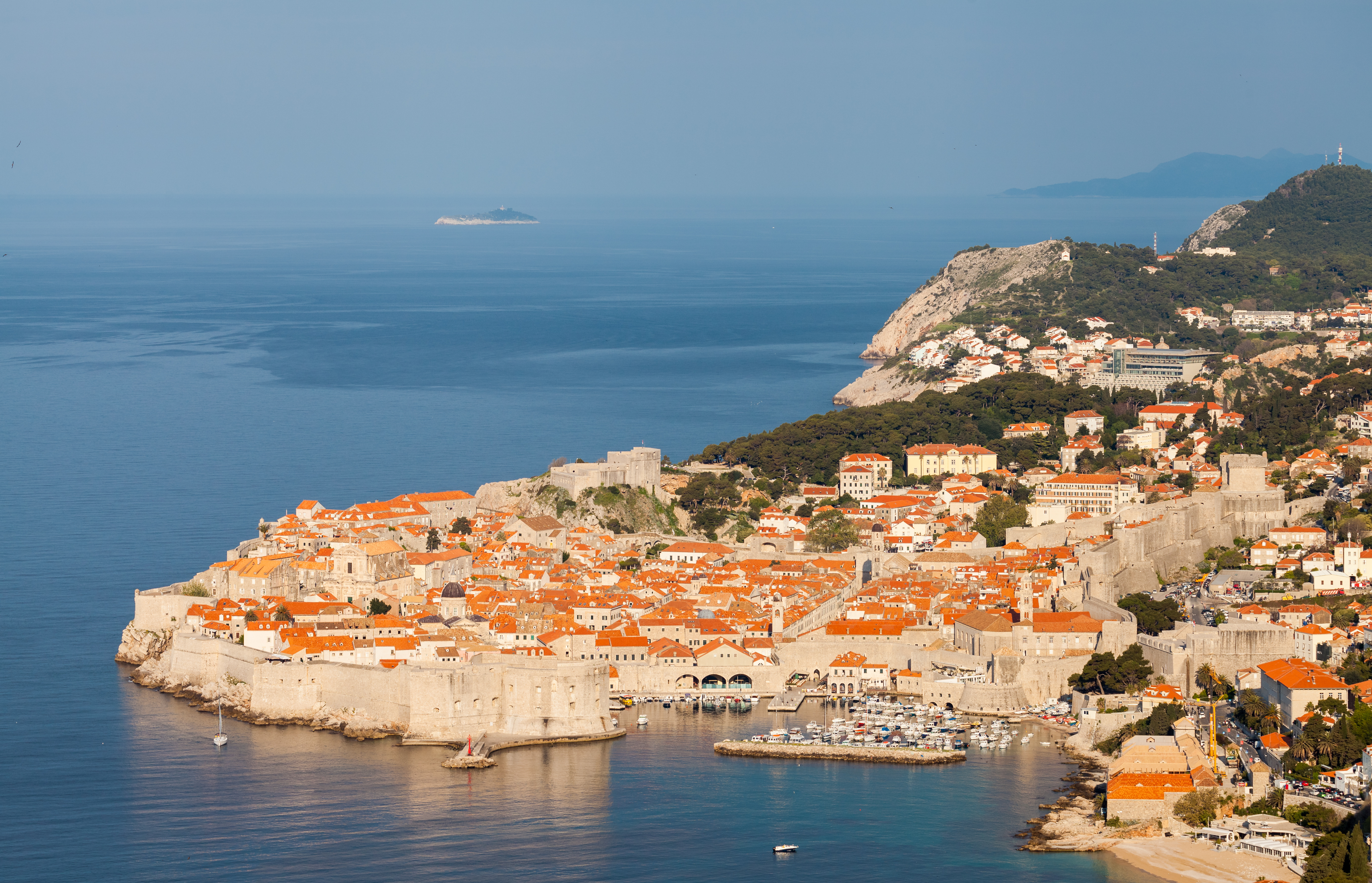 Early morning view of the Old Town of Dubrovnik and its city walls, an UNESCO Heritage Site since 1979. The former Republic of Ragusa was a maritime republic centered on the city of Dubrovnik (Ragusa in Italian and Latin) in Dalmatia (today in southernmost modern Croatia), that existed from 1358 (end of the sovereignty of Venice) to 1808 (conquered by Napoleon's French Empire). It reached its commercial peak in the 15th and the 16th centuries, under the protection of the Ottoman Empire. It had a population of about 30,000 people, of whom 5,000 lived within the city walls.